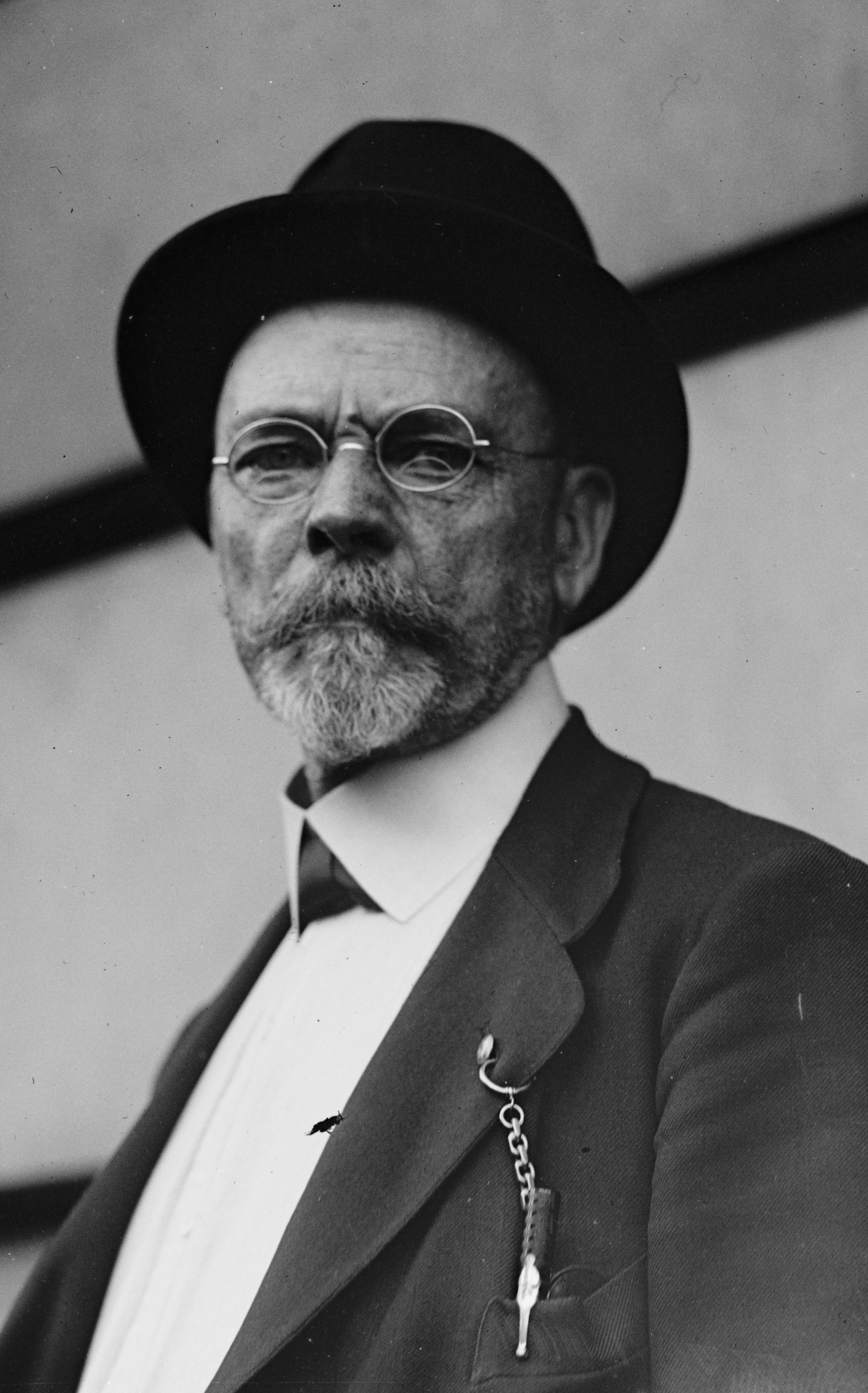 Senator Alexis Bjorkman of Sweden, 9/18/20